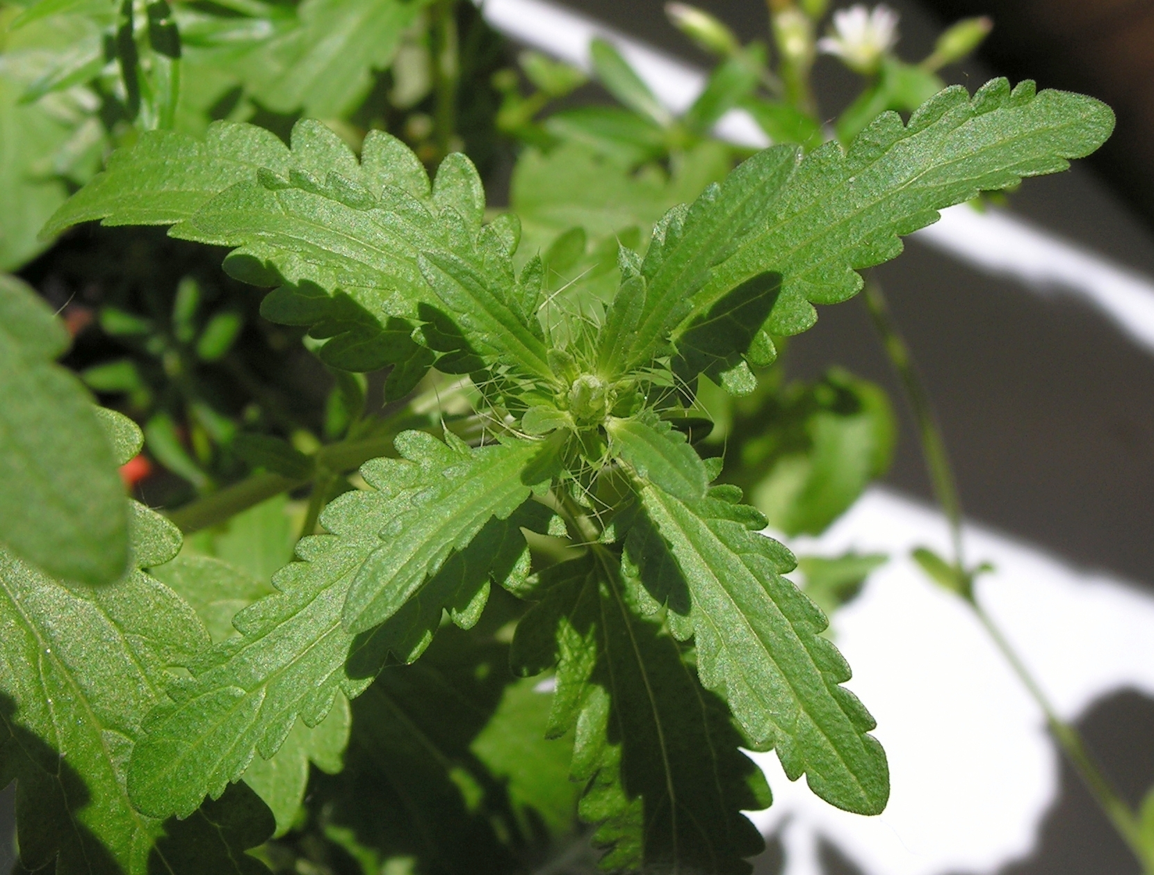 Cultivated Dracocephalum moldavica ‘Горыныч’.